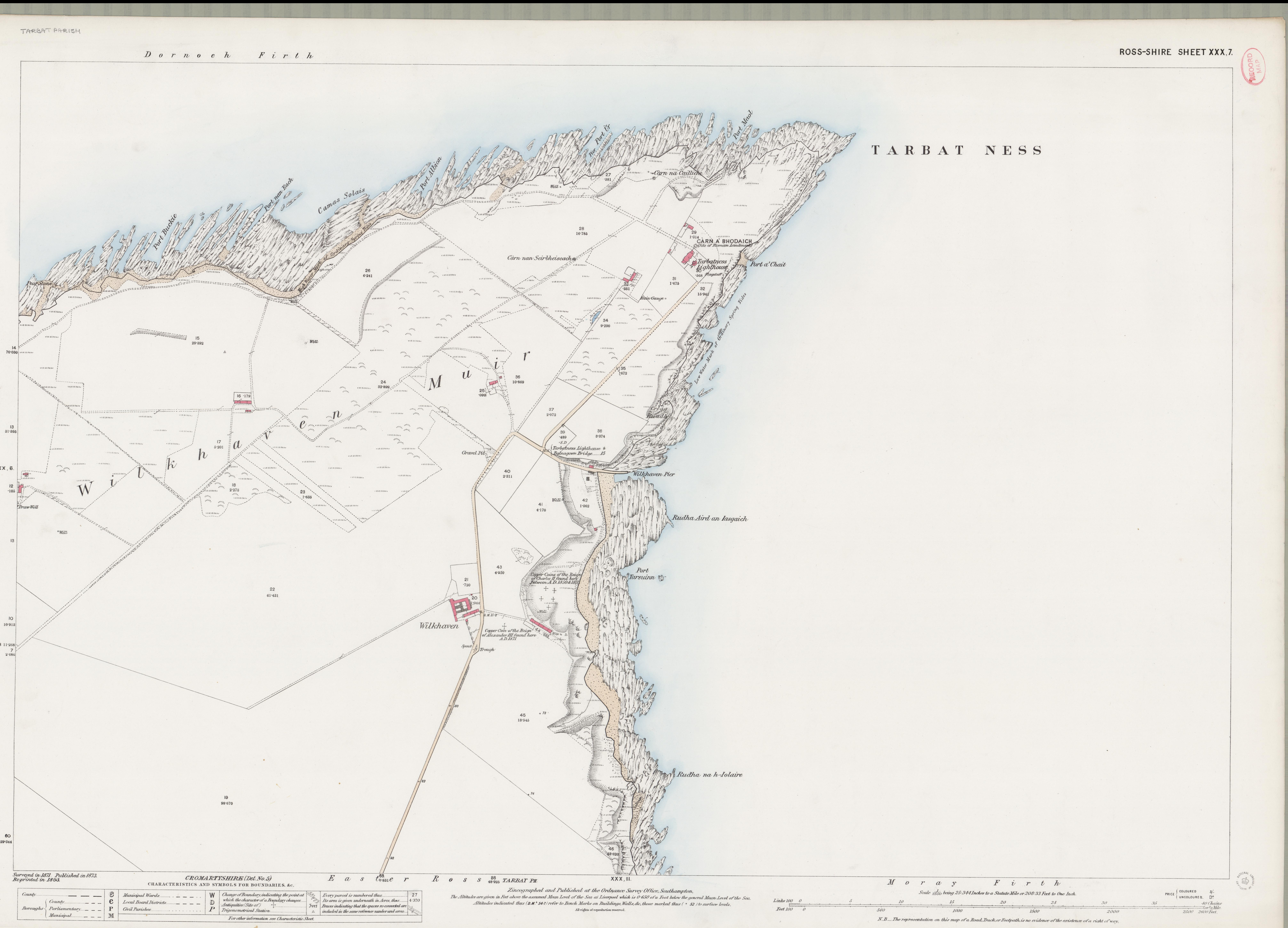 Ordnance Survey map, published 1873. Shows promontory of Tarbat Pensinsula, which goes under the name of Tarbat Ness. Highland, Scotland. tarbat Ness lighthouse is shown as well.